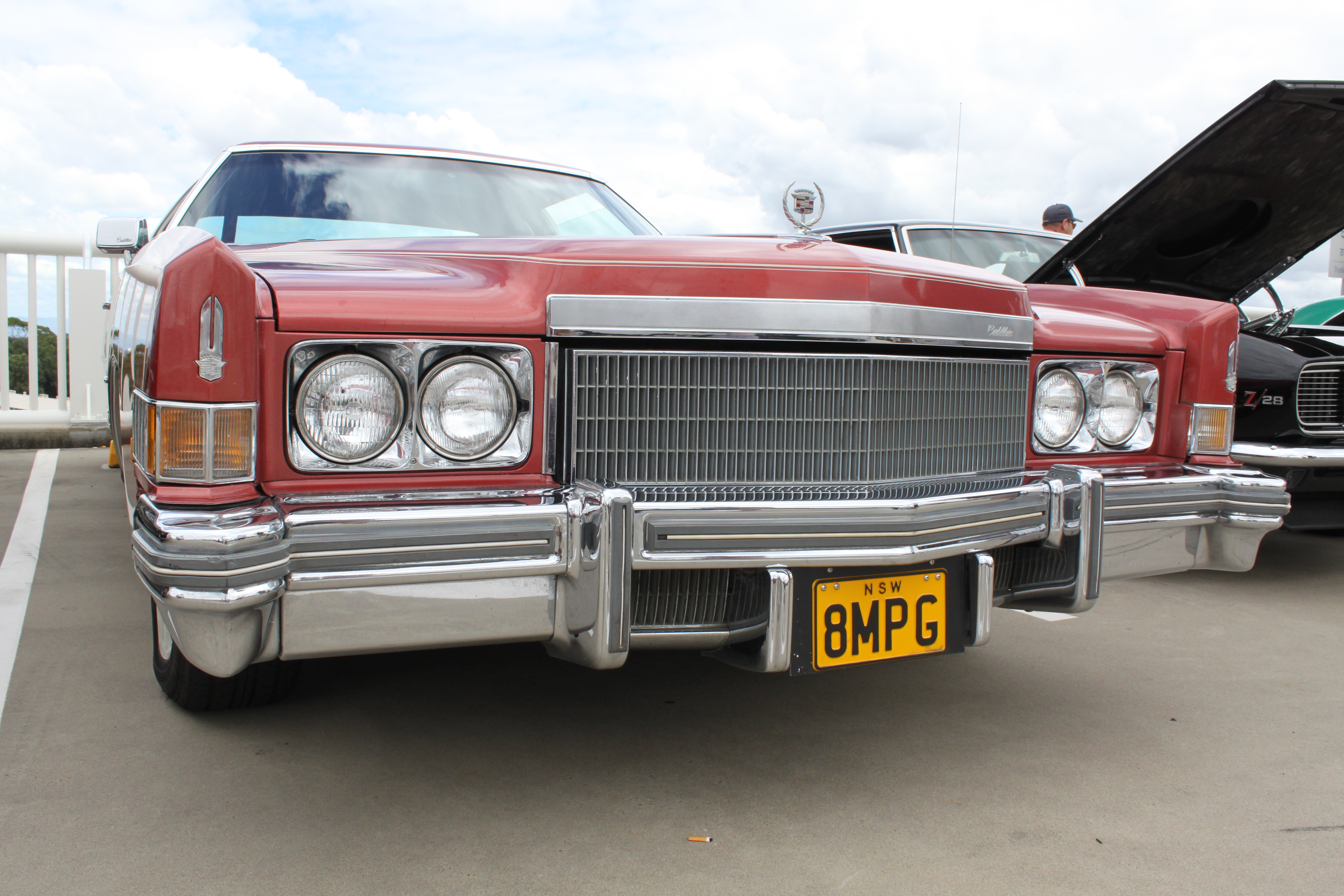 All American Car Show, Castle Hill, NSW January 2016